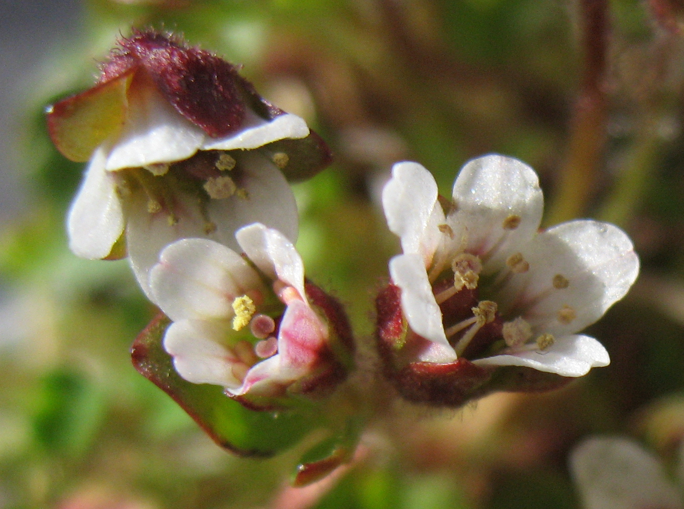 Alpine Brook Saxifrage (Saxifraga rivularis) photographed near the port in Upernavik, Greenland.